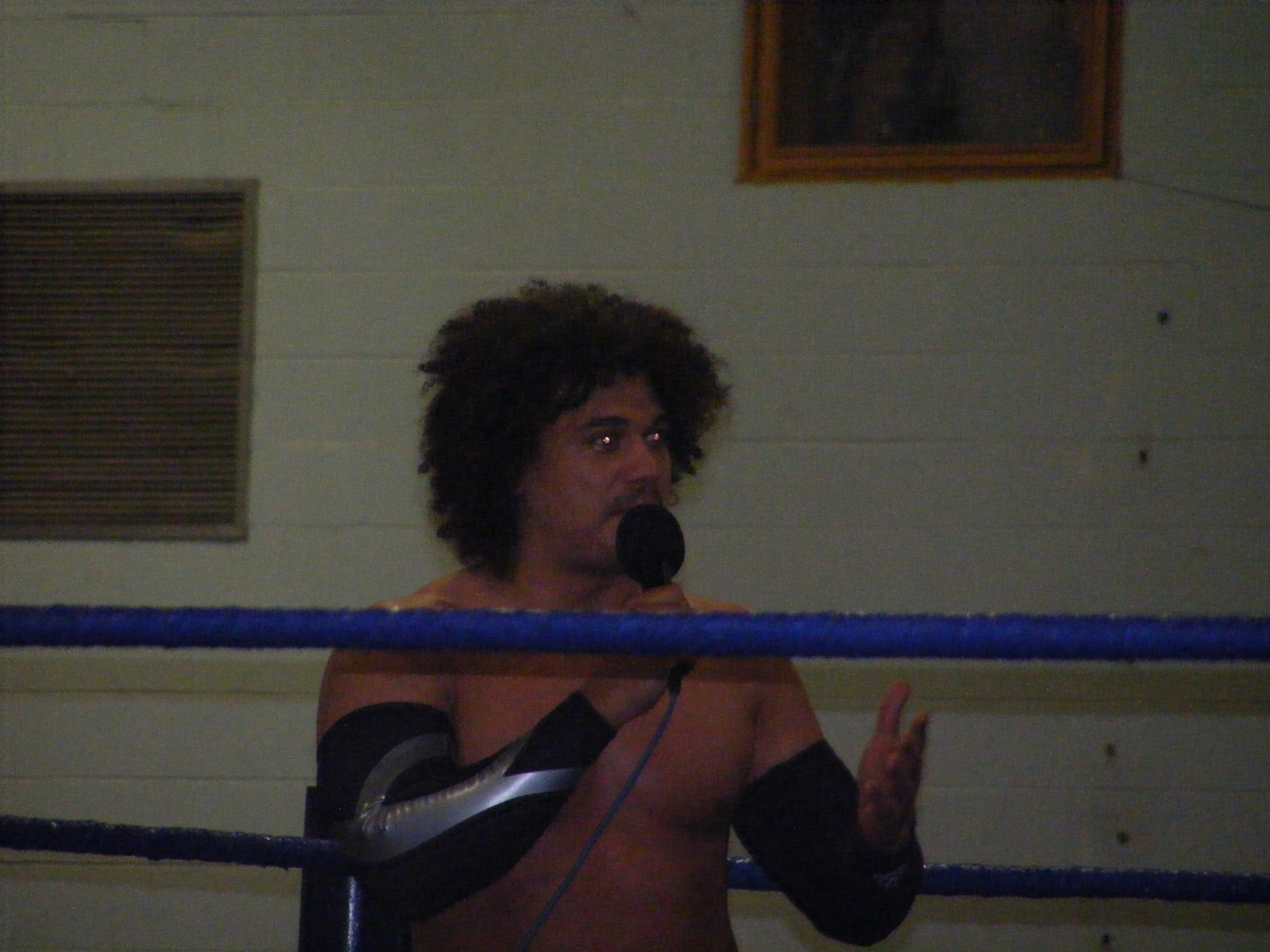 Carlito Adresses the Crowd at an USWF show in Gloucester, MA, on May 13, 2011.